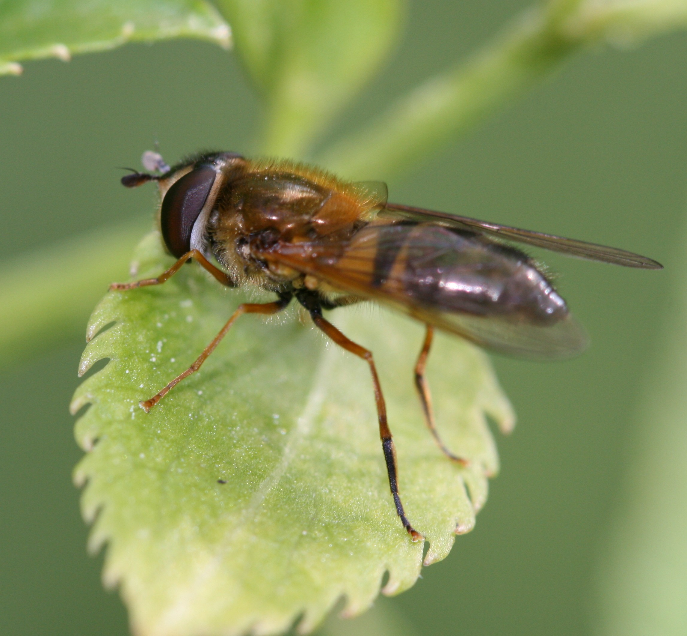 none yet